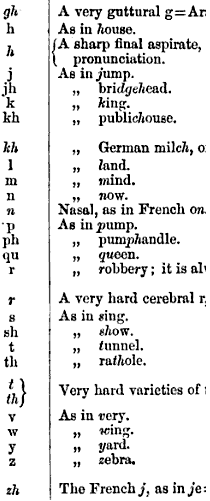 An adaptation of the Hunterian transliteration system. Uses italics to differentiate similar looking consonant renderings in Roman for Nagri/PersoArabic letters.